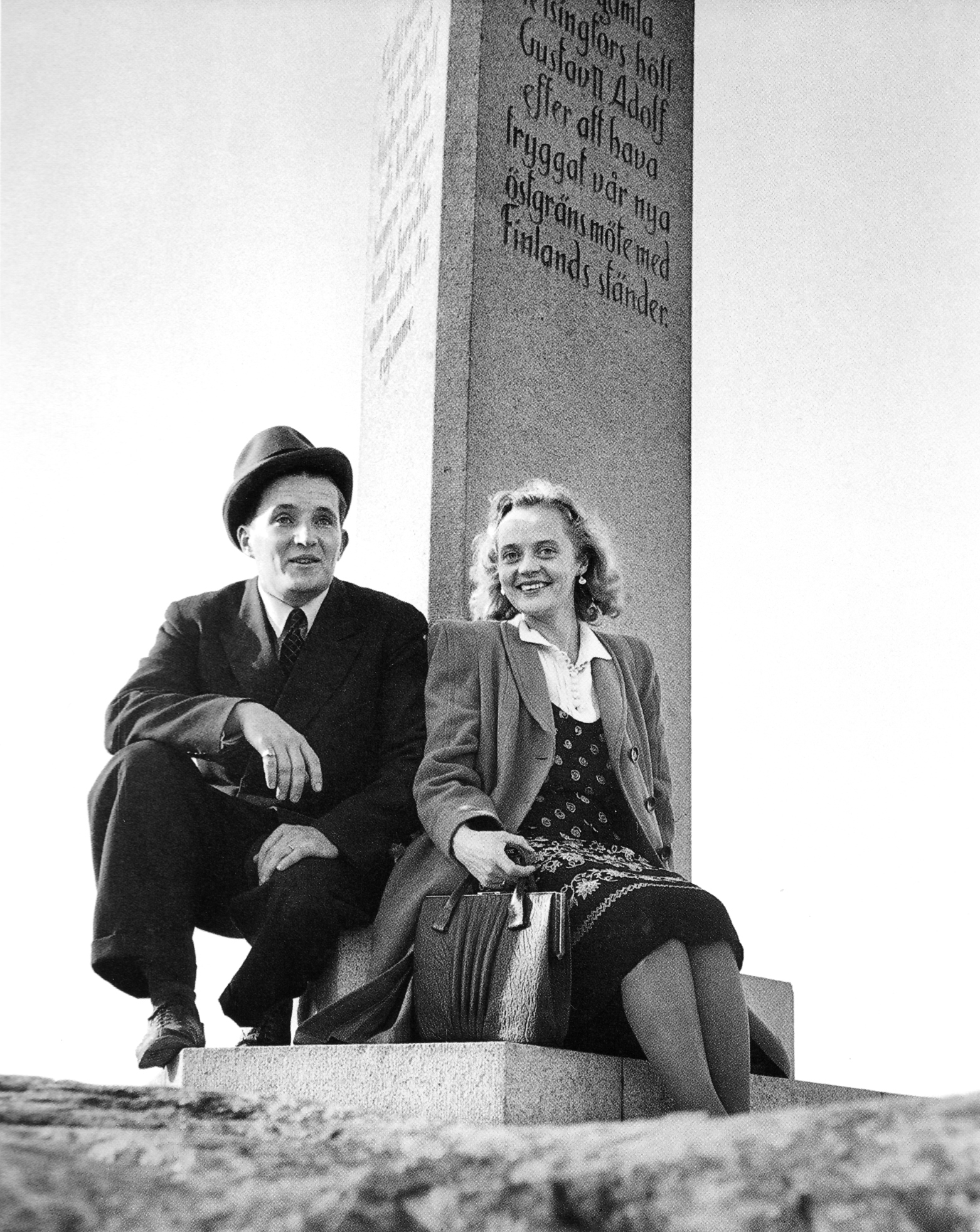 Photograph of the photographer Alvar Kolanen (1921–2007) and his wife Terttu Kolanen in Helsinki, at the Gustaf II Adolf obelisk.